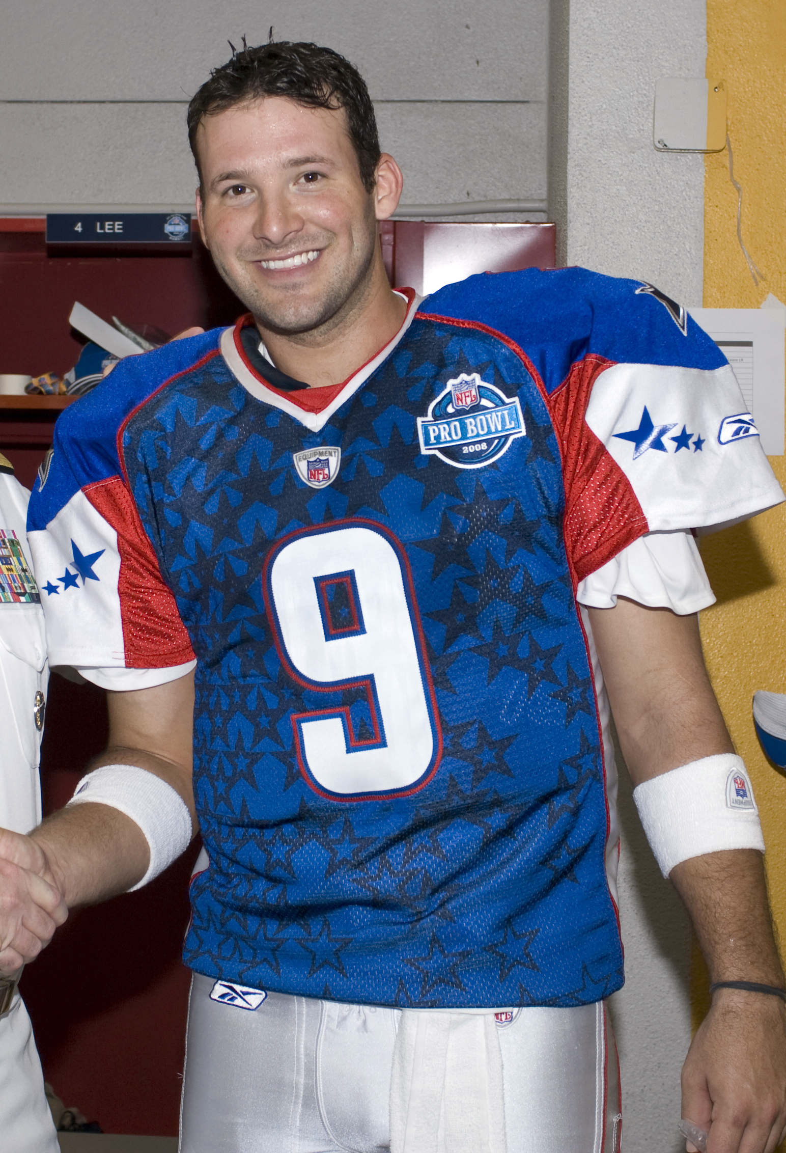 Tony Romo of the Dallas Cowboys before the 2008 National Football League Pro Bowl football game at Aloha Stadium, Honolulu, Hawaii, Feb. 10, 2008. VIRIN: 080210-N-8623G-010